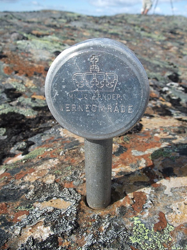 Storfjelltoppen i Saltdal